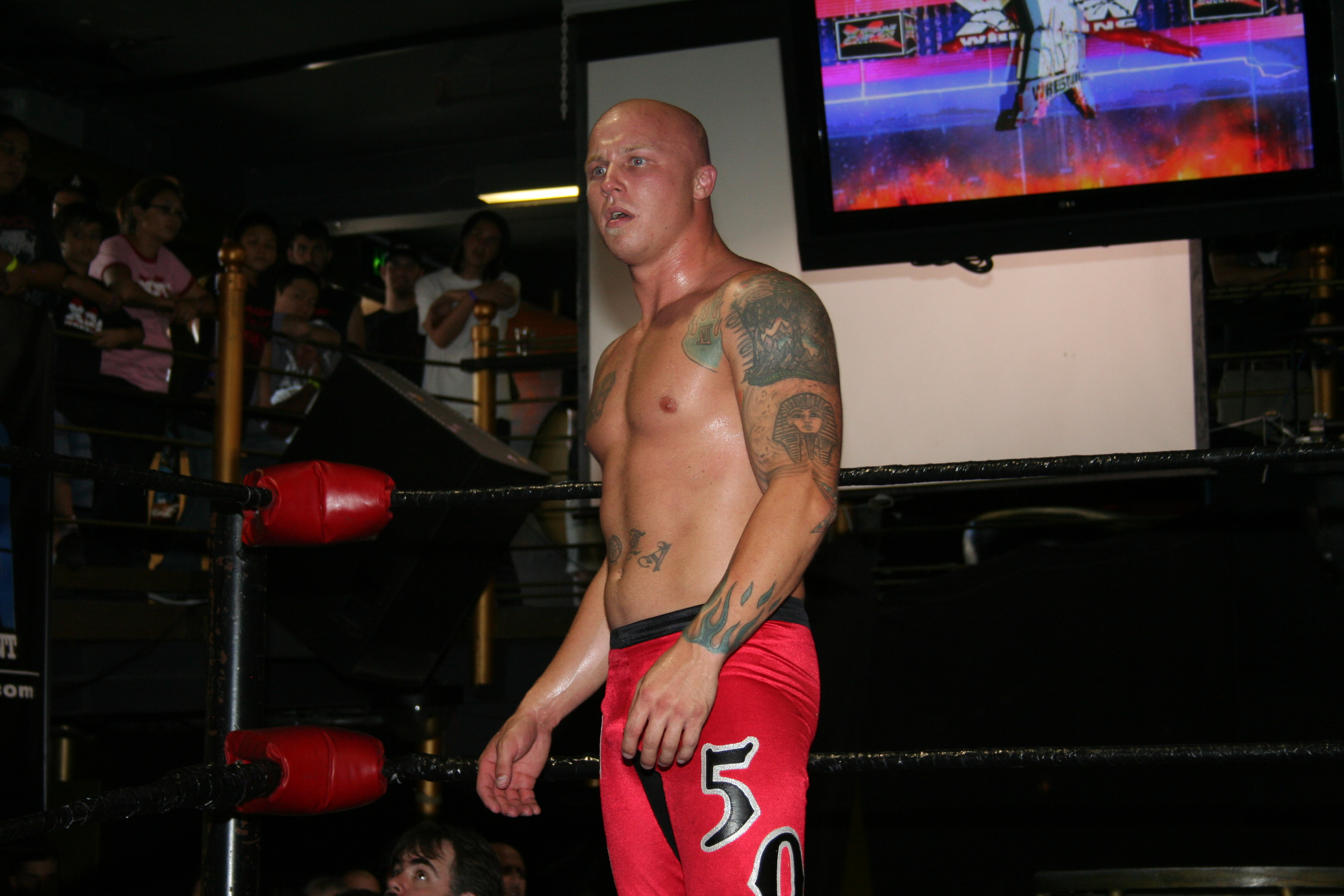 Professional wrestler Luke Hawx at XPW X (XPW's 10th anniversary show) in August 2009.